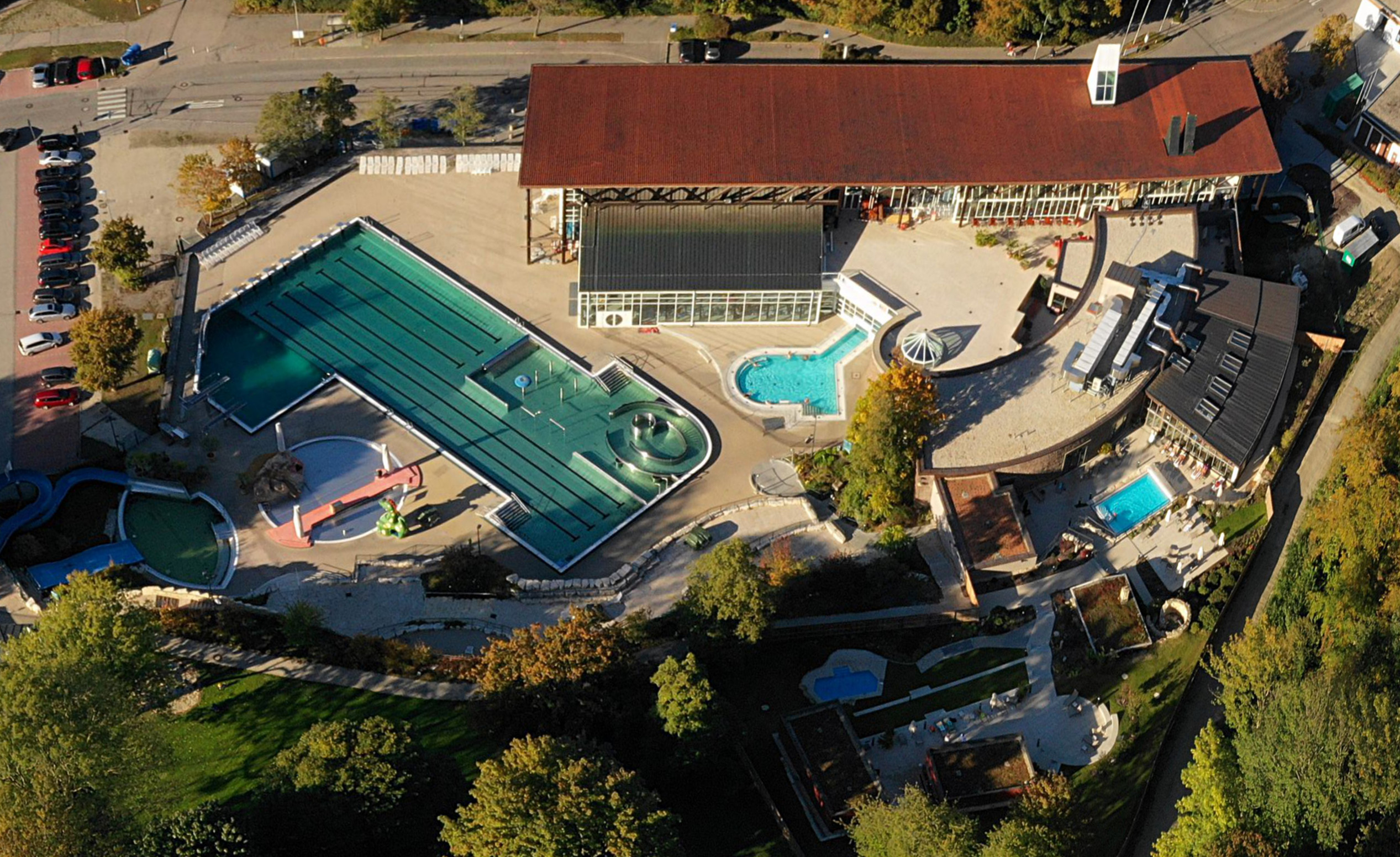 Caprima Dingolfing, Schwimmbad